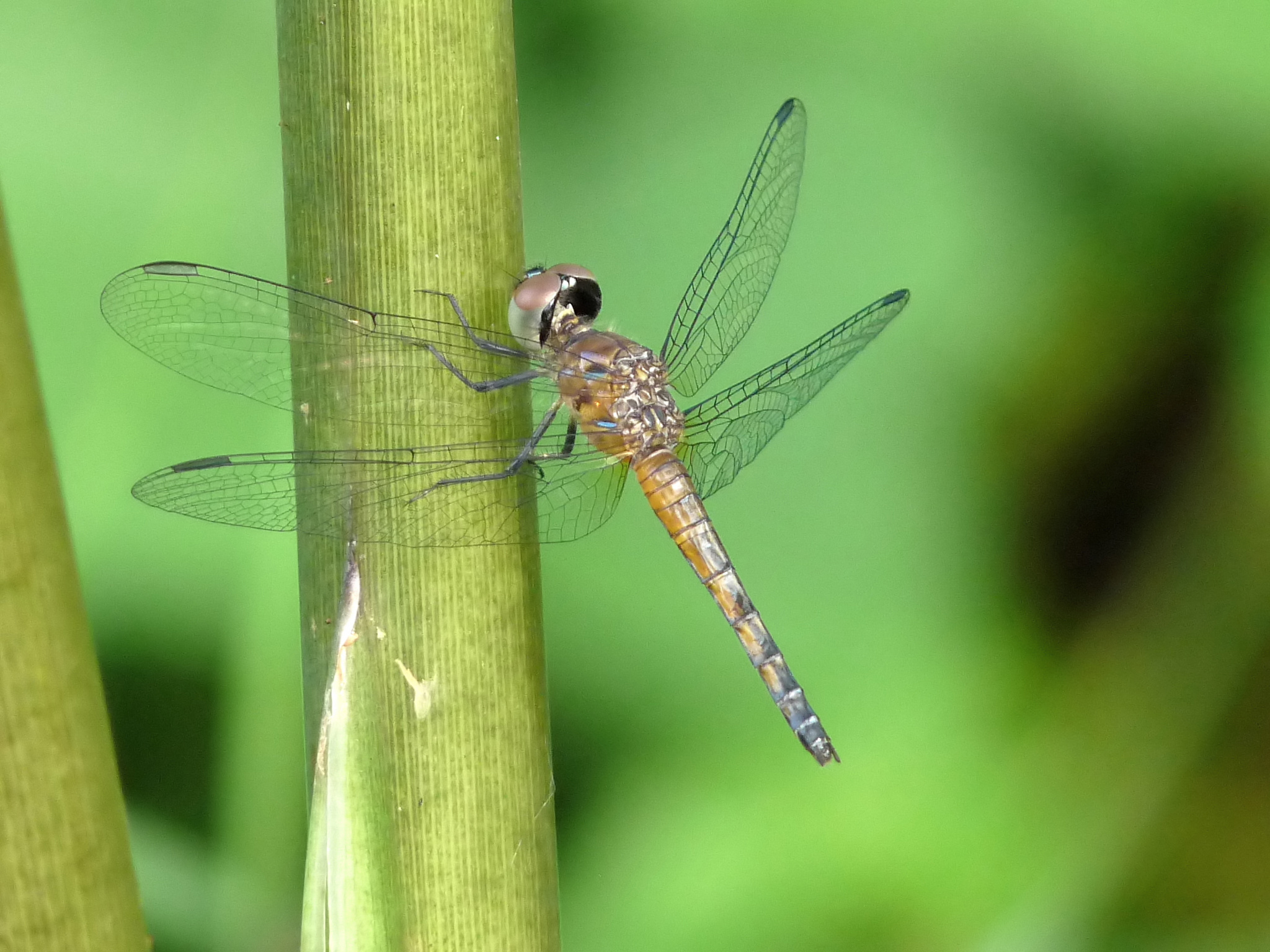 Brachydiplax chalybea, Rufous-backed Marsh Hawk, is a small black and ochre coloured dragonfly with dense bluish white pruinescence on thorax and abdomen. The ochre metallic blue on the face of these dragonflies helps to easily distinguish them. Another distinguishing feature is the yellow wing-spots with a black border. The thorax is rusty brown in colour. Commonly found in marshes, ponds and rivers. They are often seen perched by the water every now and then and flying out to challenge any intruder that wanders into their small territory. While males have a bluish abdomen, the females have a more ochreous colour. They are less often seen and only appear at the water for oviposition. Taken at Kadavoor, Kerala, India.